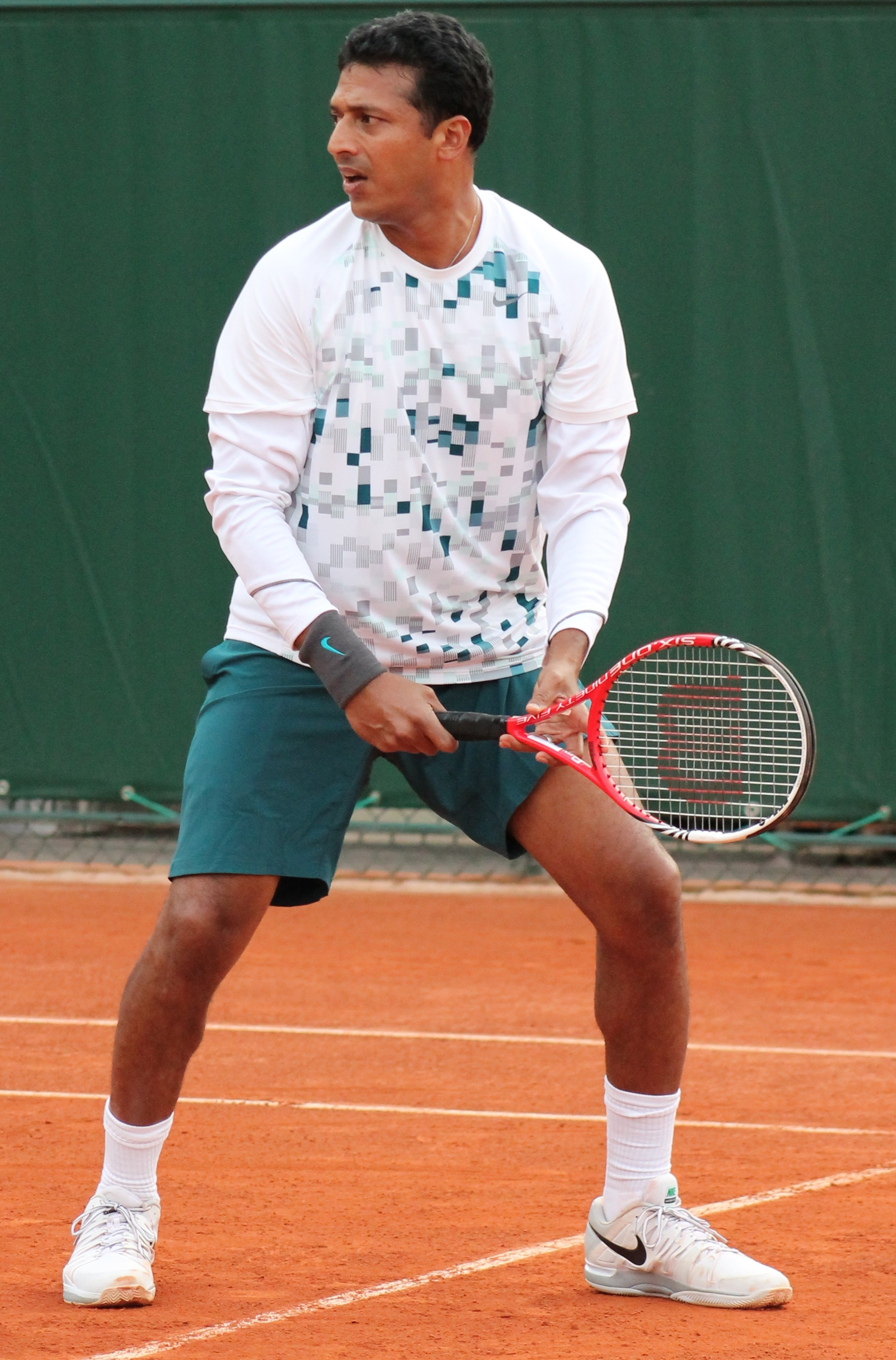 Mahesh Bhupathi